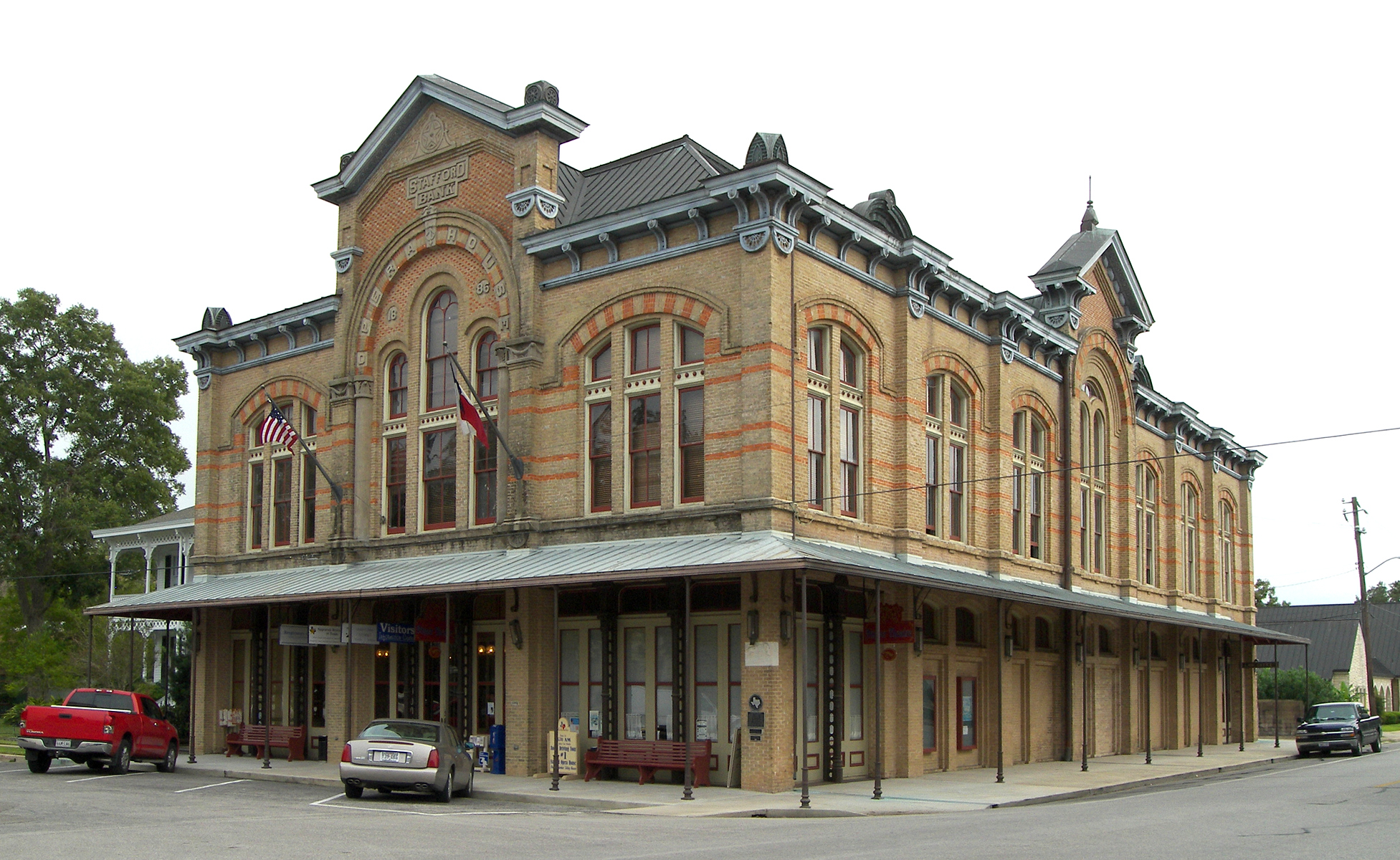 The Stafford Bank and Opera House located in Columbus, Texas, United States. The building was designated a Recorded Texas Historic Landmark in 1969 and listed on the National Register of Historic Places on March 22, 2004.